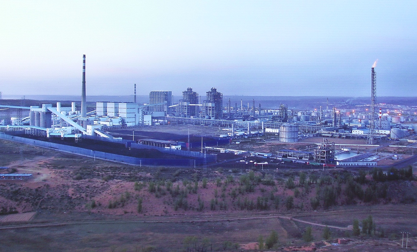 Shenhua Coal-to-Liquid Plant, Inner Mongolia, China